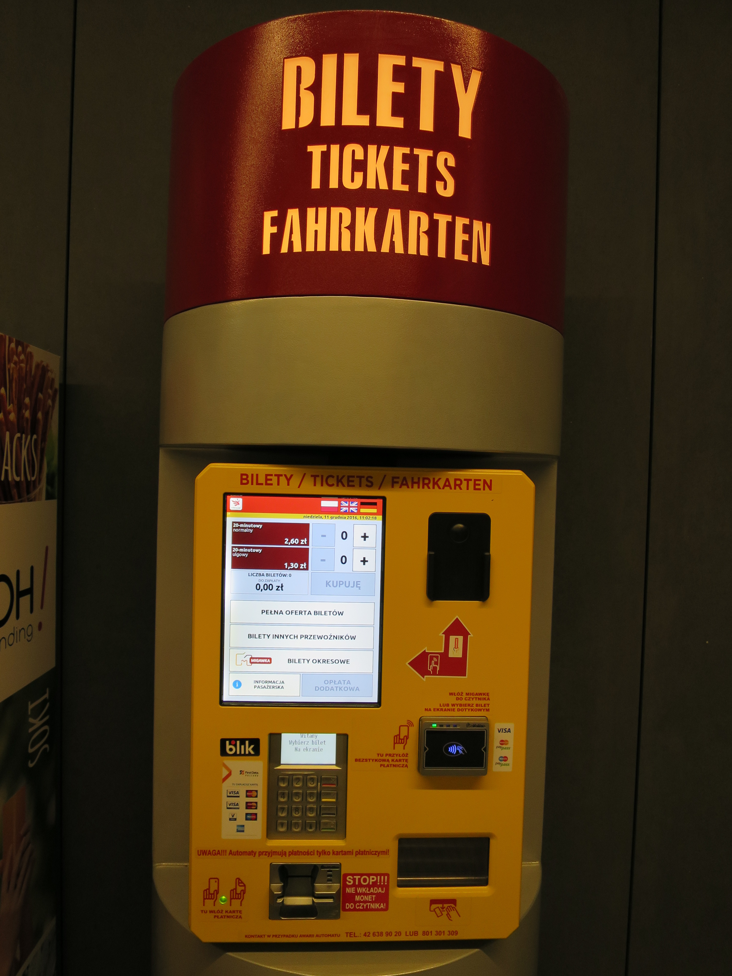 The making of this document was supported by Wikimedia Polska Association, within Wikigrant no. WG 2016-56. Łódź Fabryczna - biletomat